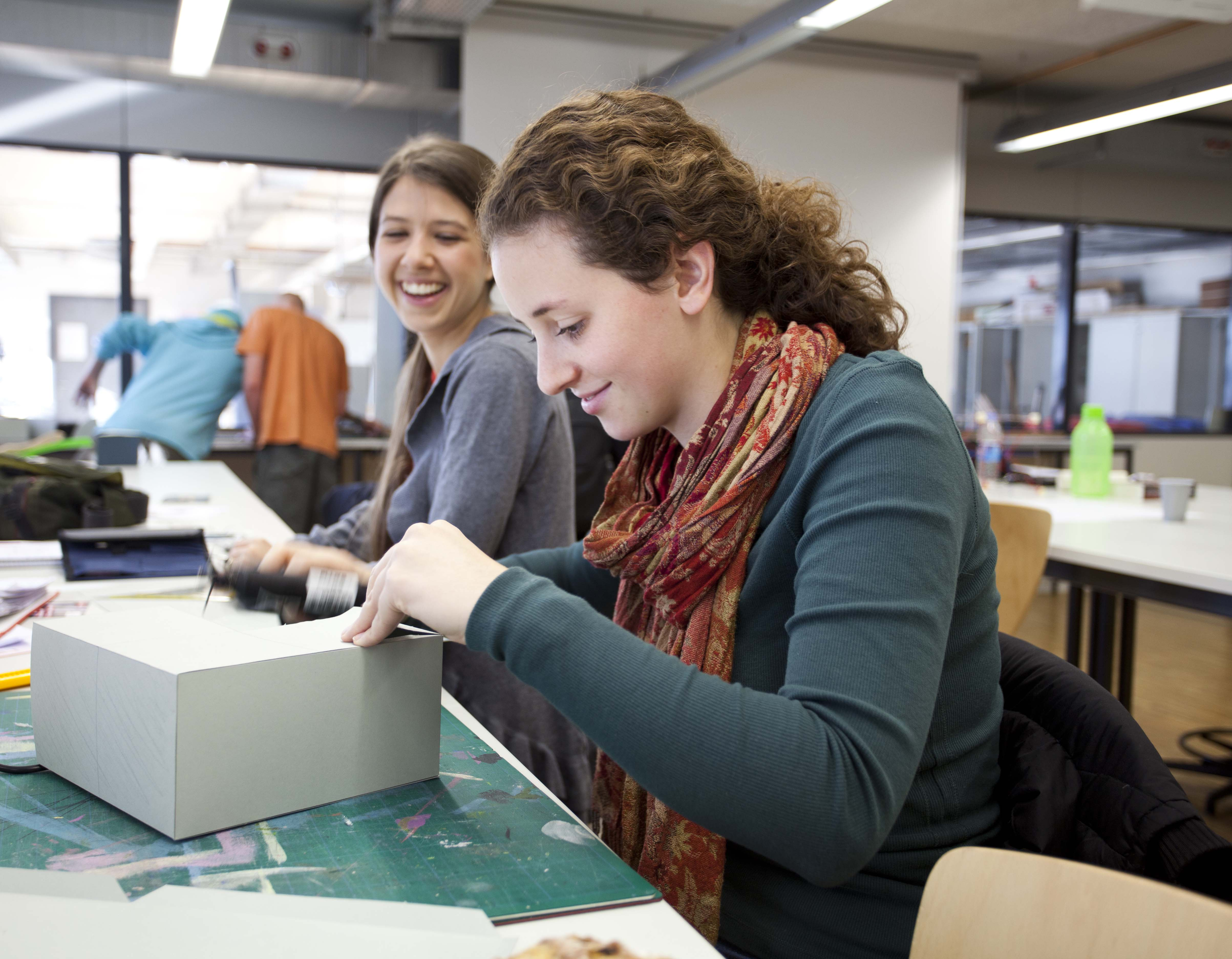 Grundlagen der Gestaltung - Unterricht zum Gestalter im Handwerk